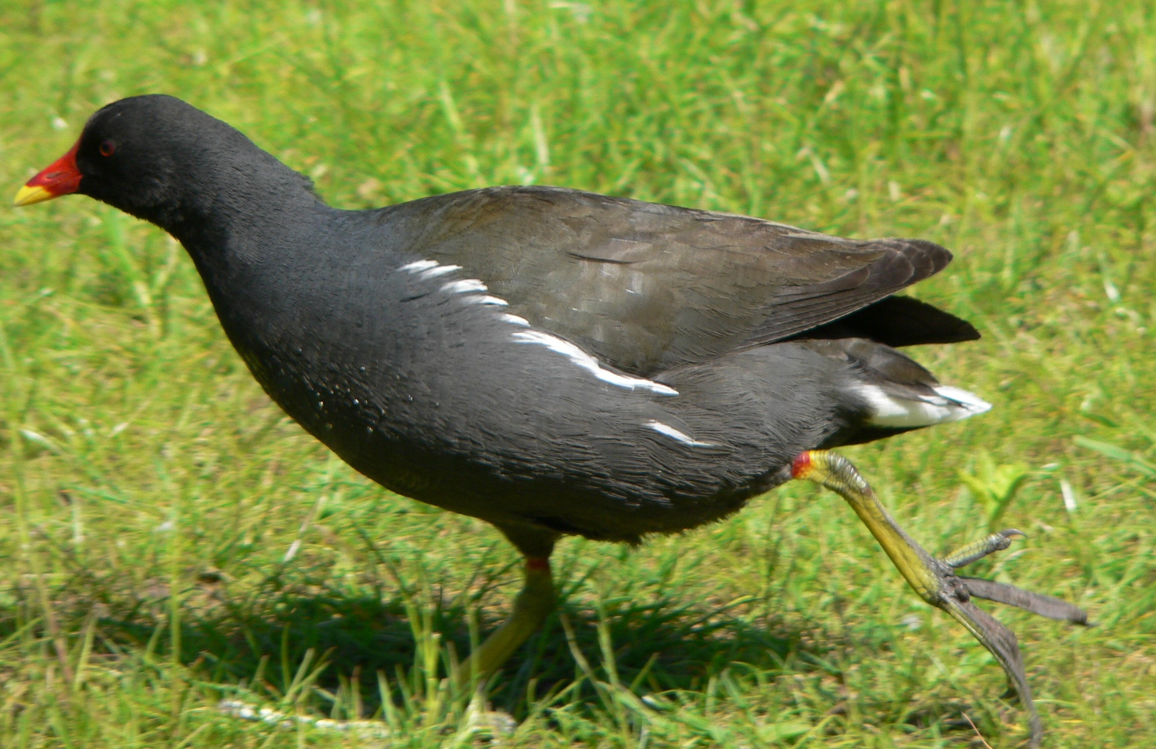 May 2005 Photo taken by user Benutzer:BS Thurner Hof